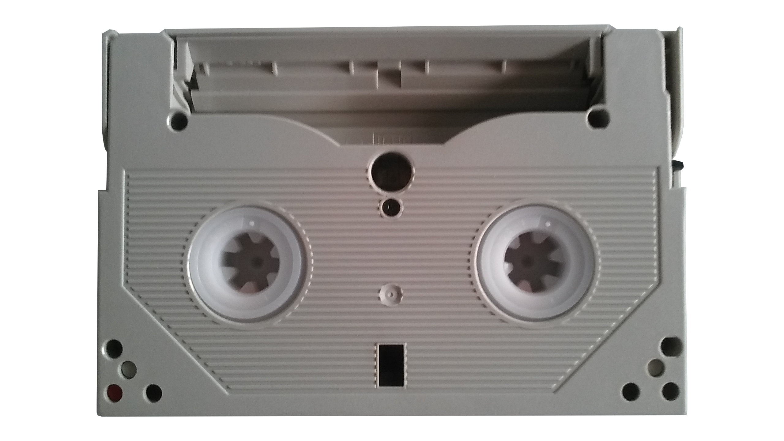 Backside of a Mammoth-Cartridge for data backups. Producer: Exabyte Corporation.